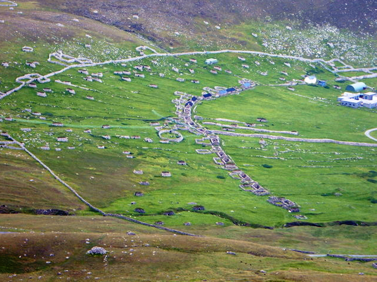 The Village, Hirta, St Kilda.